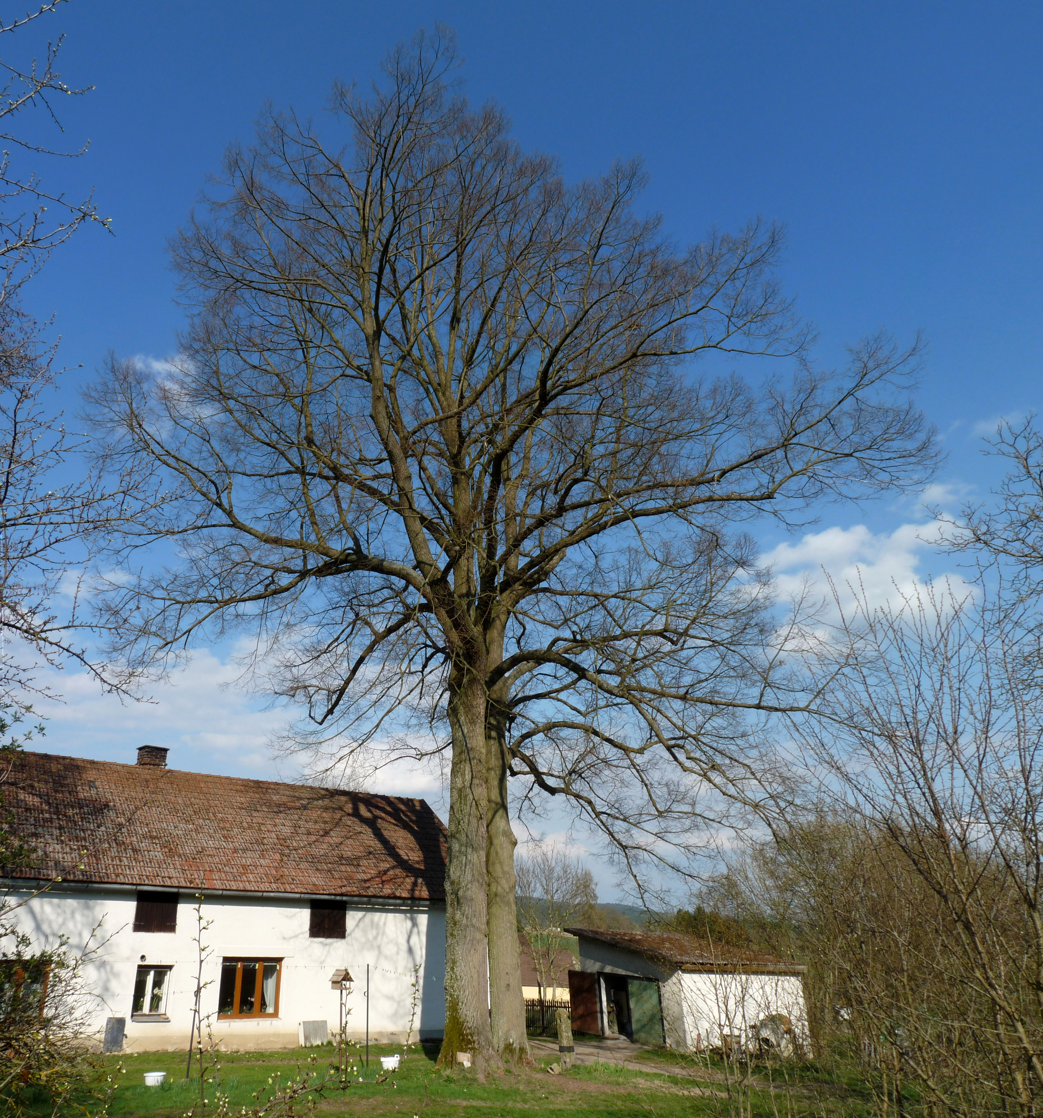 Famous tree in the village of Vlčetínec, Jindřichův Hradec District, South Bohemian Region, Czech Republic.